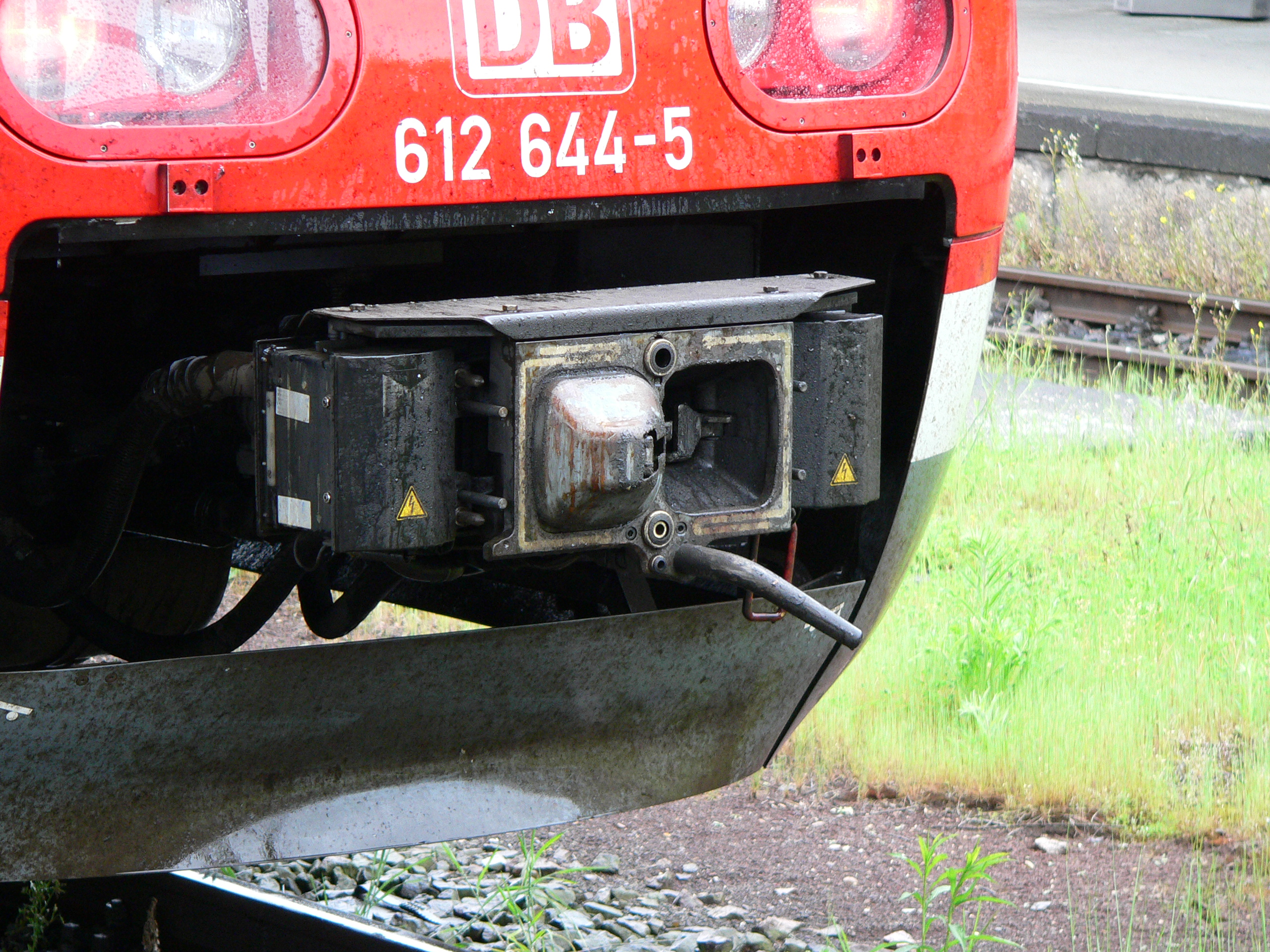 Scharfenberg coupler (Schaku) at german railcar type 612